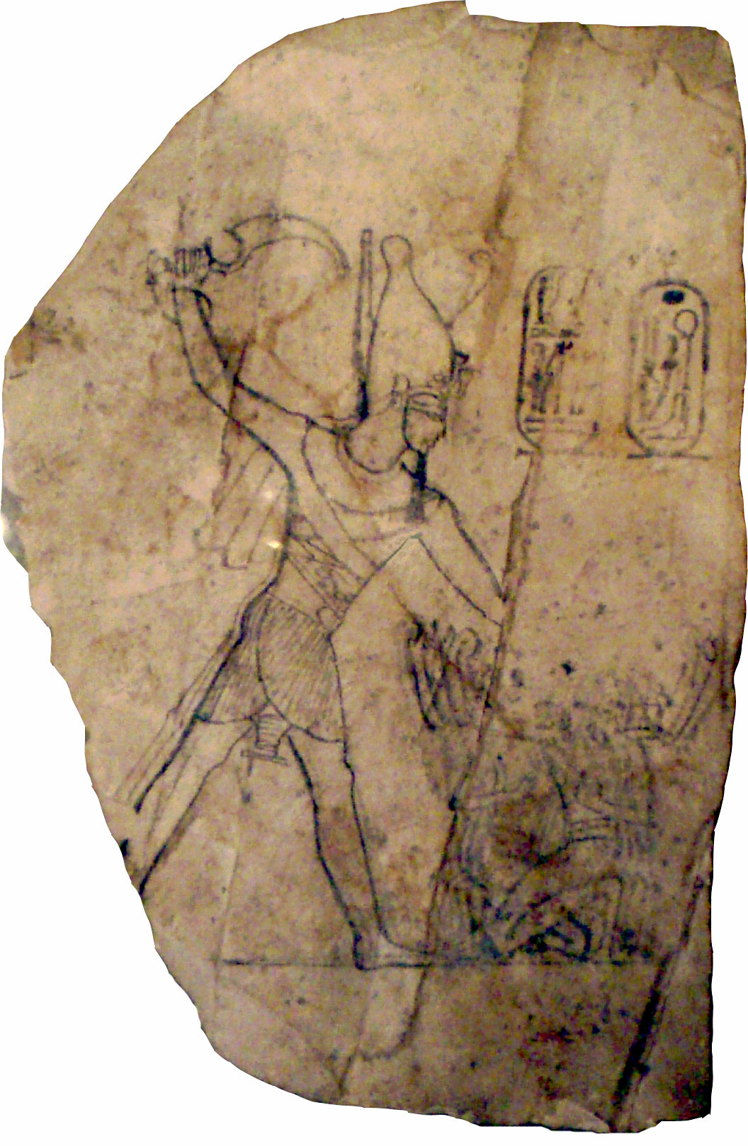 A limestone ostracon depicting Ramesses IV smiting his enemies, from the 20th dynasty, circa 1156-1150 B.C. Background cropped and a highlight touched up using Photoshop. Now residing in the Museum of Fine Arts, Boston.